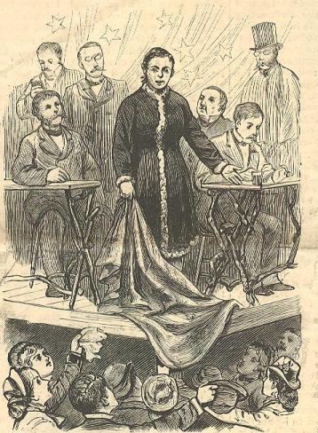 Picture of Ada Anderson during her Brooklyn walking US debut